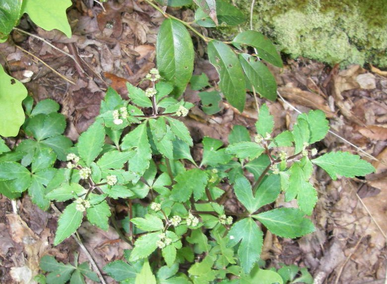 I personally took this pict of Small's blacksnakeroot in the Great Smoky Mountains.